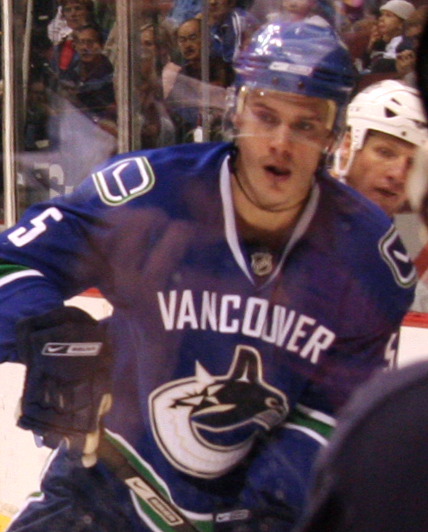 Defenceman Lukas Krajicek with the Vancouver Canucks in 2007.